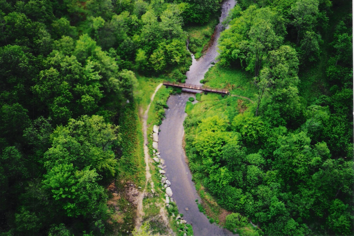 View of Kinzua Creek and footbridge, from the Kinzua Bridge (pre-2003 collapse) — in Kinzua Bridge State Park, McKean County, Pennsylvania.